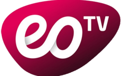 This is the Logo of the Television Station "European Originals TV"